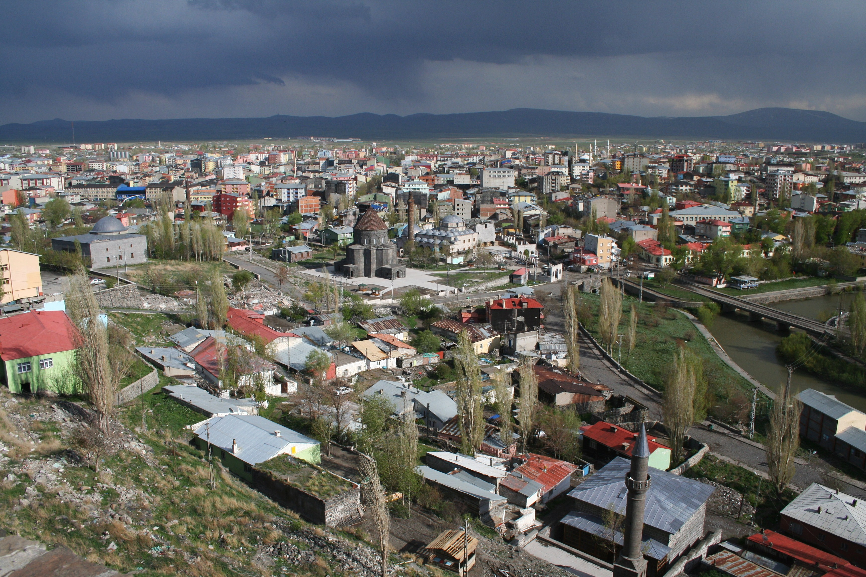 View from Kars Citadel over the city of Kars, Armenian Church of the Twelve Apostles and Kars River clearly visible.